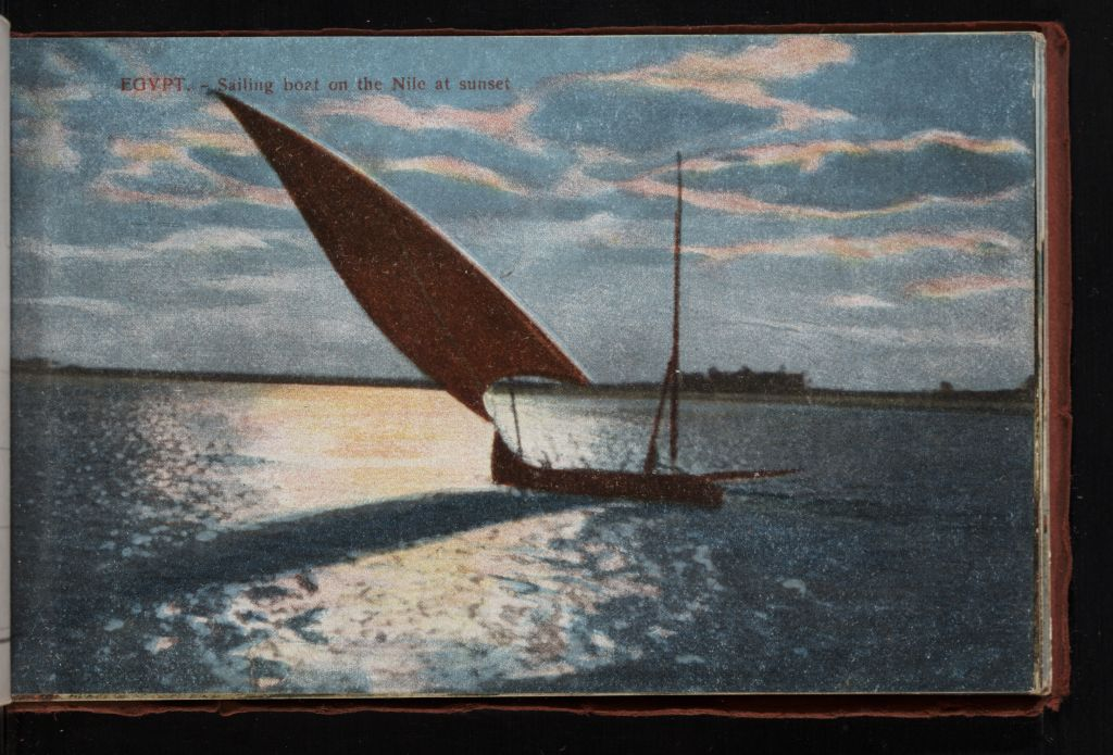 Triangular sailing boat, sailing alone in the Nile